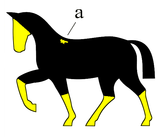 An illustration showing approximately what is usually considered "spotted" in horse and what is not: markings exceeding the yellow areas are considered spotting. "a" points to a spot that has turned white after skin damage (this location is typical for a saddle chafe). Such white scar spots are not considered spotting.